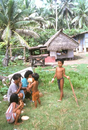 Tobi village women with children, Tobi Island, Southwest Islands of Palau. Original field note: Note the traditional male clothing on the little boy - like an Hawaiian malo. Typical house raised off the ground & storage shed.